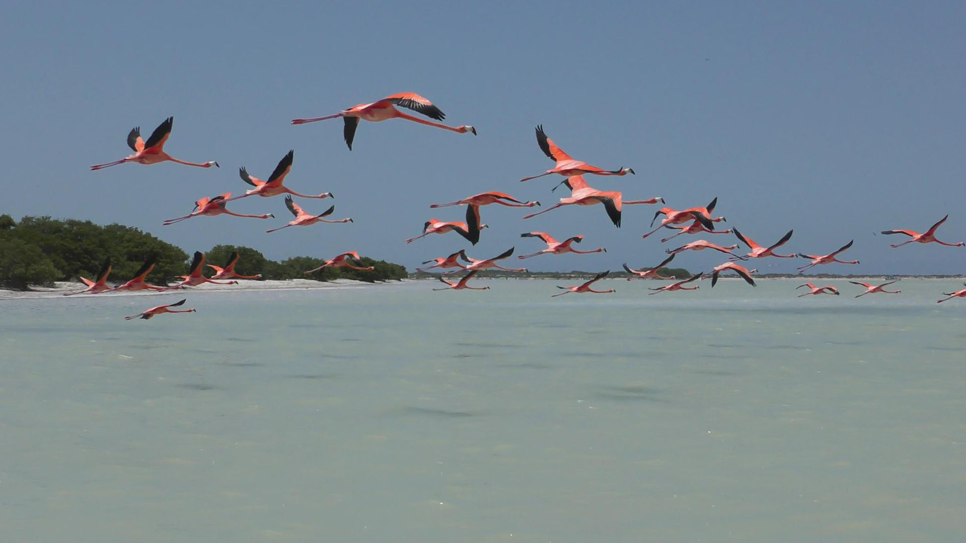 Flamingos in flight at Rio Lagartos, Yucatán, MX